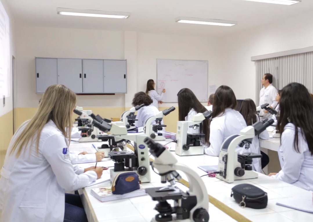 Students in the university of Pedro Juan Caballero.